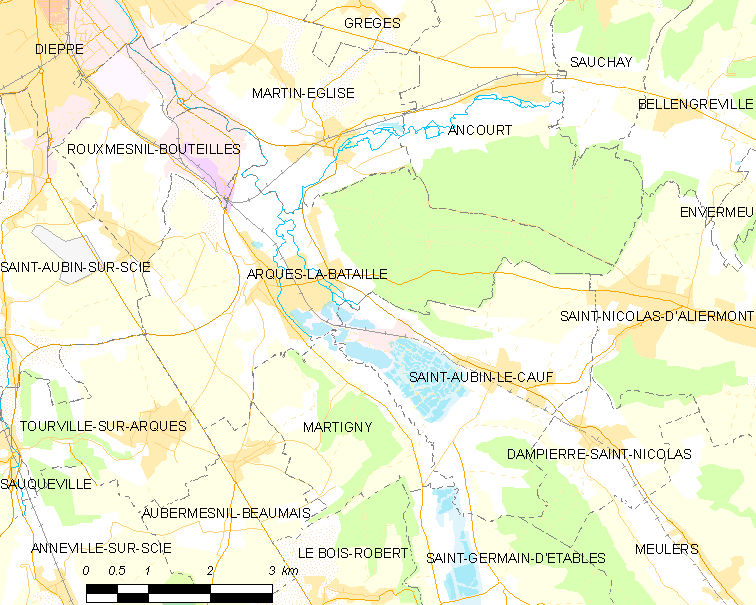 Map of French municipality Arques-la-Bataille